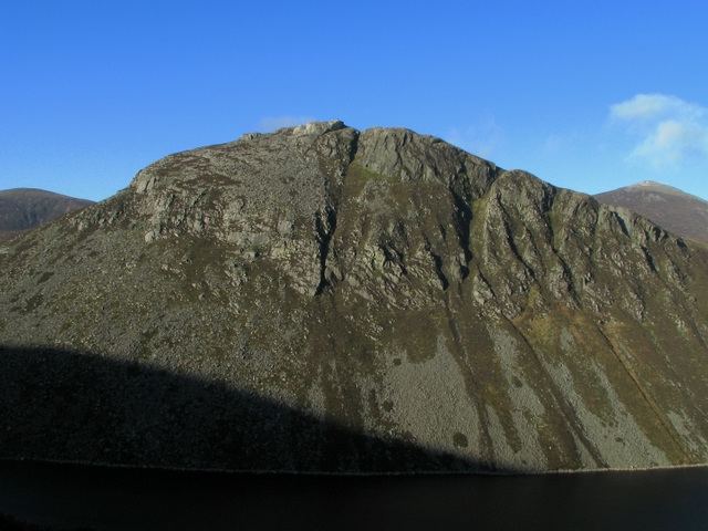 Ben Crom Ben Crom mountain in the Mournes